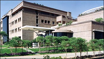 Broadridge Campus, HITEC City.